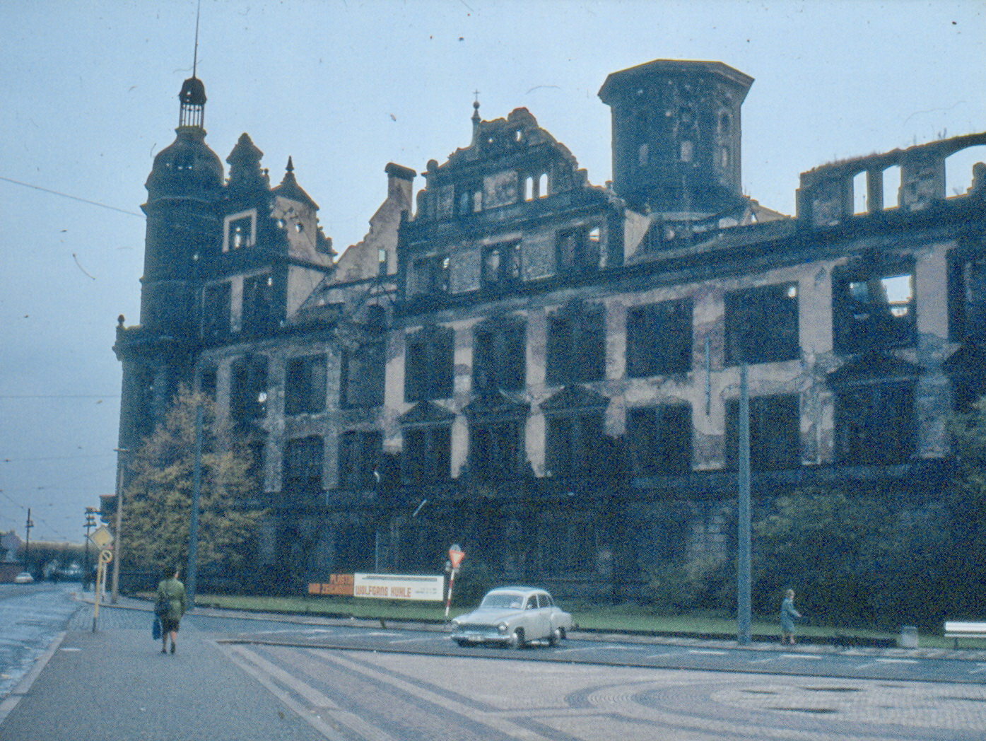 The Castle of Dresden, destroyed after 1945 before restauration in 2000.